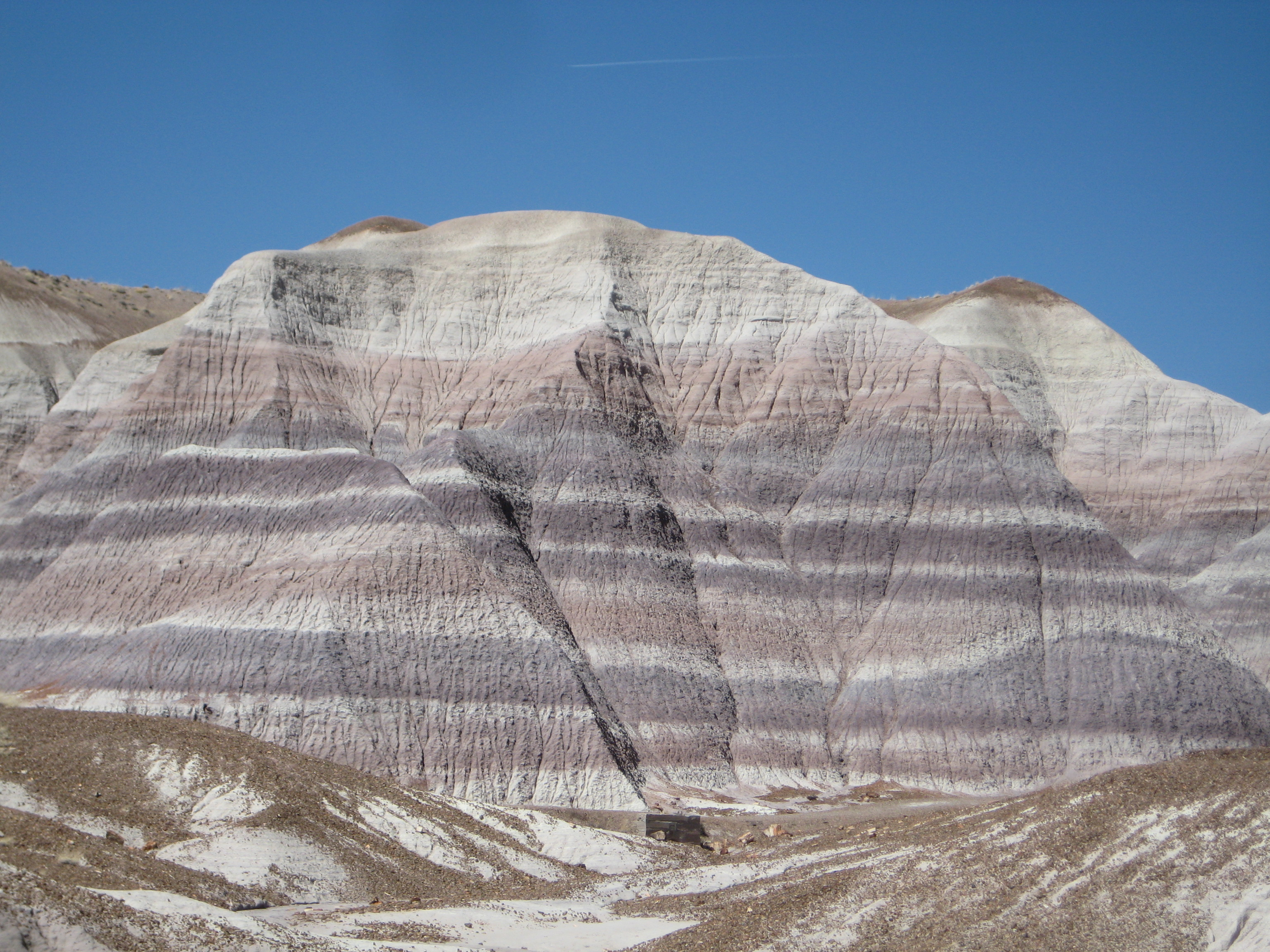 Petrified Forest National Park, Arizona -- The pastel bands of color in the Blue Mesa indicate the type of environment in which the sediments were deposited. Blues and grays are a sign of carbon from decaying organic material that was buried or under water and not exposed to air. Reds result from an iron mineral, hematite. When exposed to air, even a small amount of iron causes the rocks to oxidize or rust. The whites represent nearly pure bentonite clay. Ground water, percolating through the buried sediments, also accounts for some color changes.